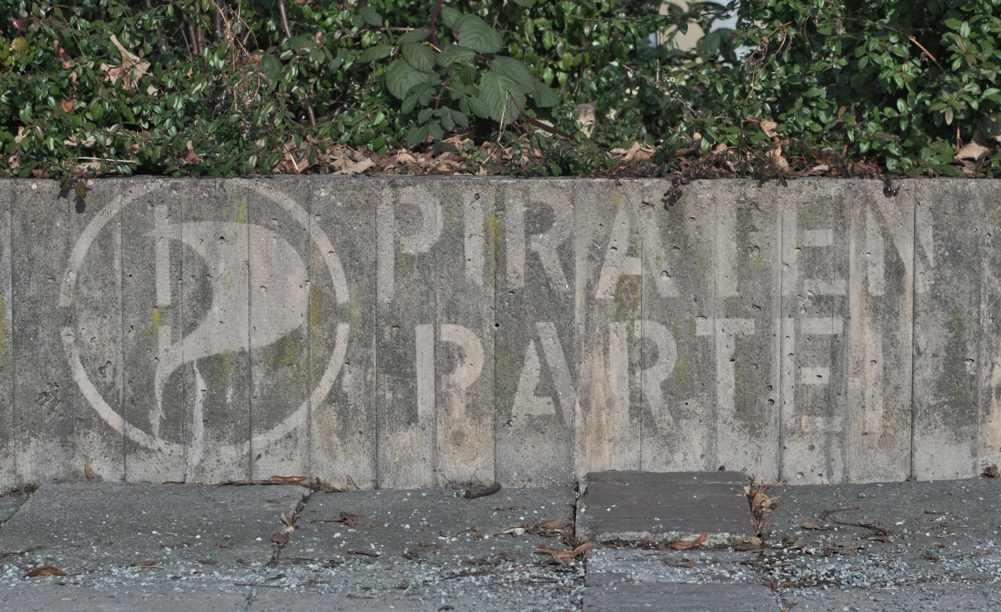 Reverse graffiti showing the logo of the Piratenpartei in Bayreuth, Germany